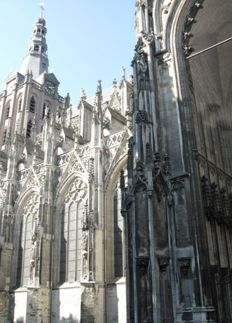 foto St-Jan 's-Hertogenbosch